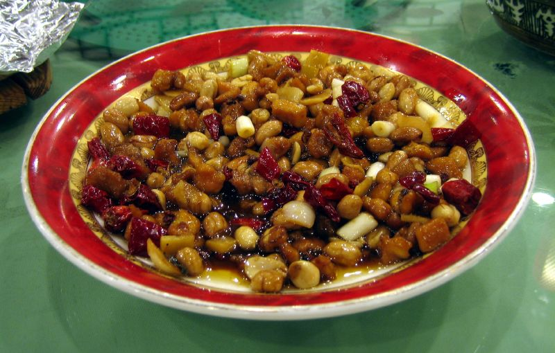 宮保雞丁, a Sichuan style dish.